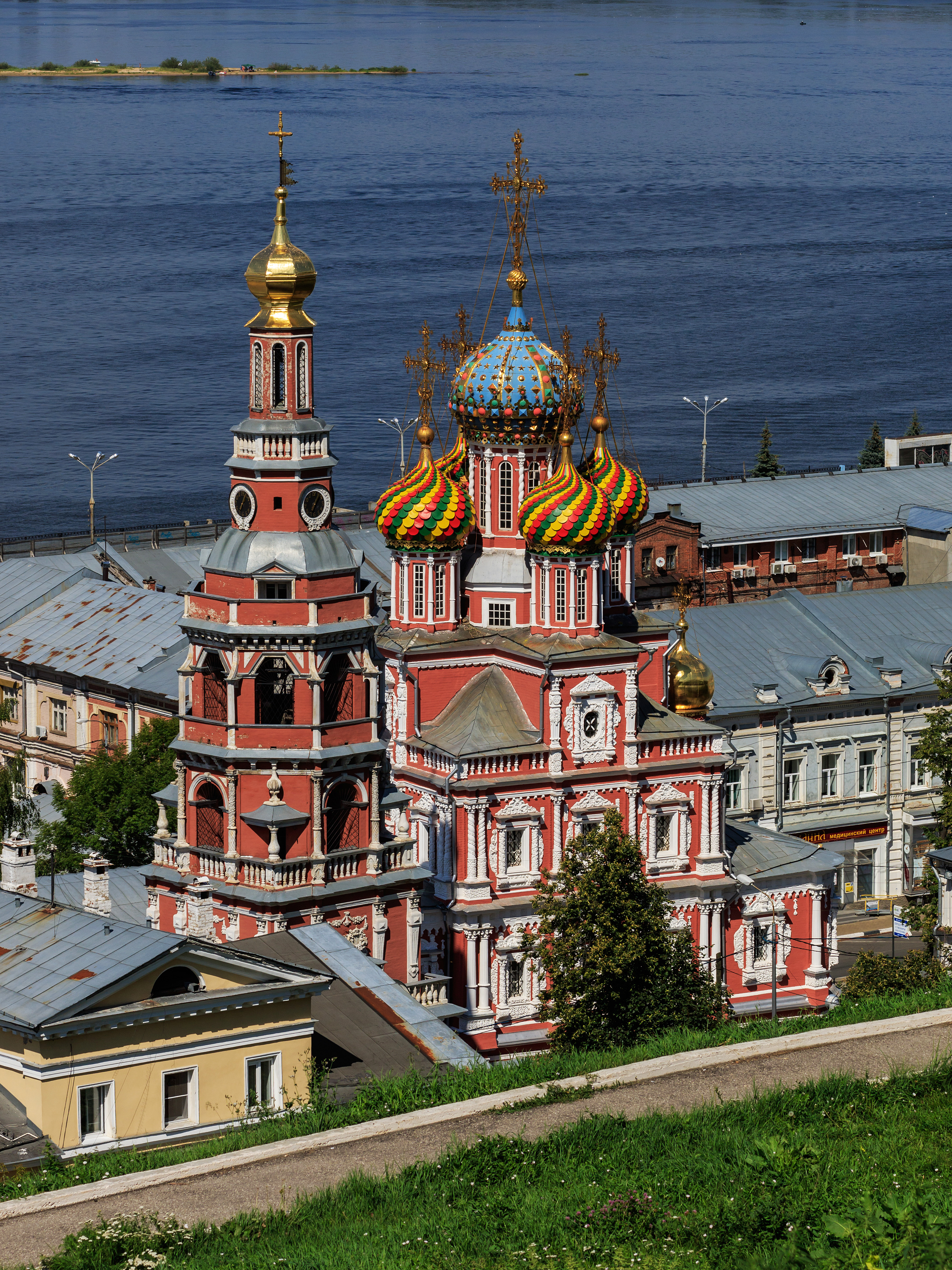 Stroganov Church (view from Fedorovskogo Embankment) in Nizhny Novgorod, Russia